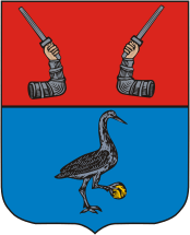 Priozersk (Leningrad oblast), coat of arms (1788)